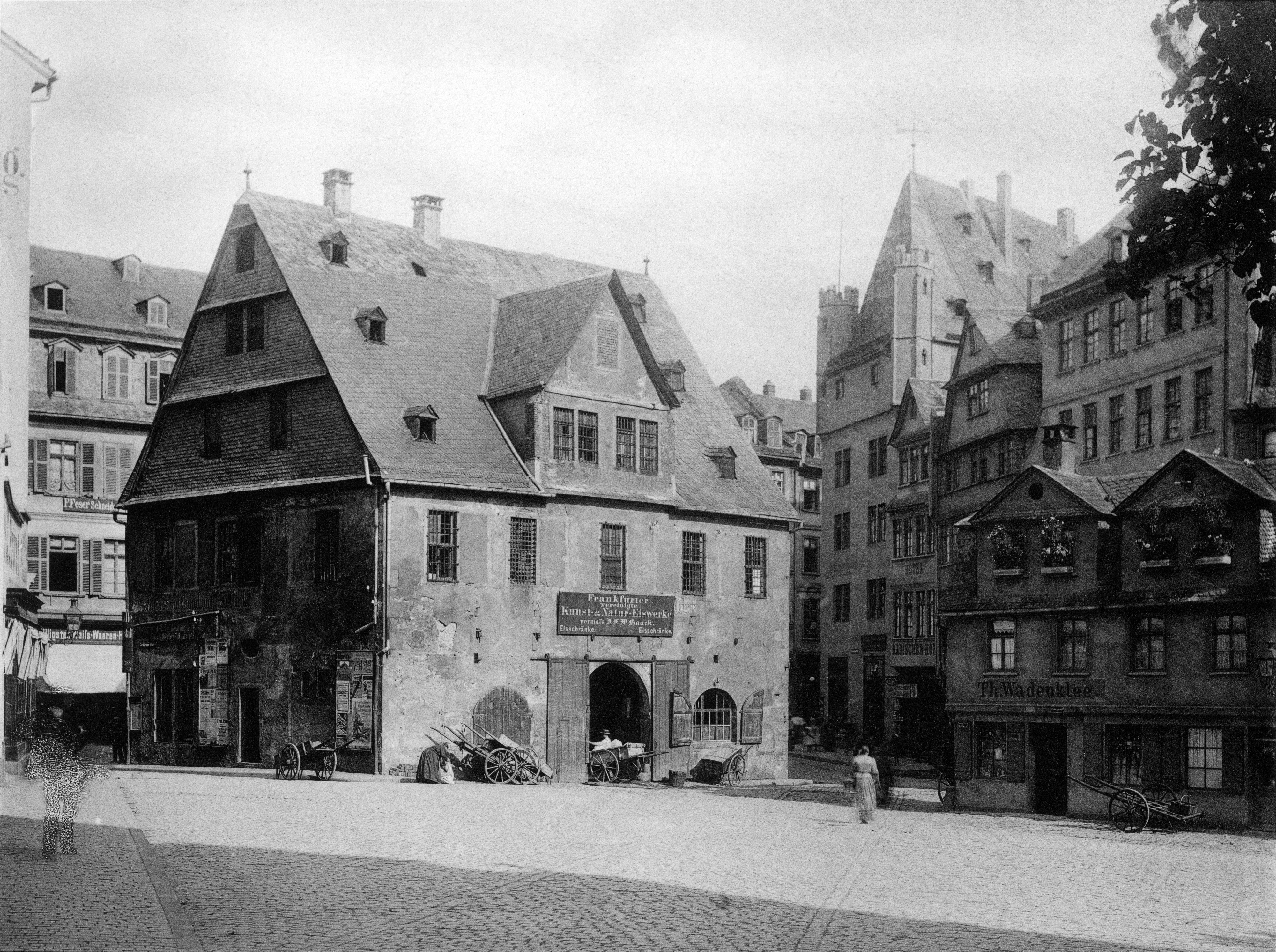 The Meal Scales, built in 1438, is a detached building which contained the meal and malt scales. Its ground floor temporarily served as a guardroom as well as a space for little shops within; it also was used as the fire engine house of the 11th quarter. In 1715 the Meal Scales was built anew. The first floor was used as a debtor's prison in former times and contained a dwelling place for the warden. In the picture a part of the „Fürsteneck“ can be seen as well.